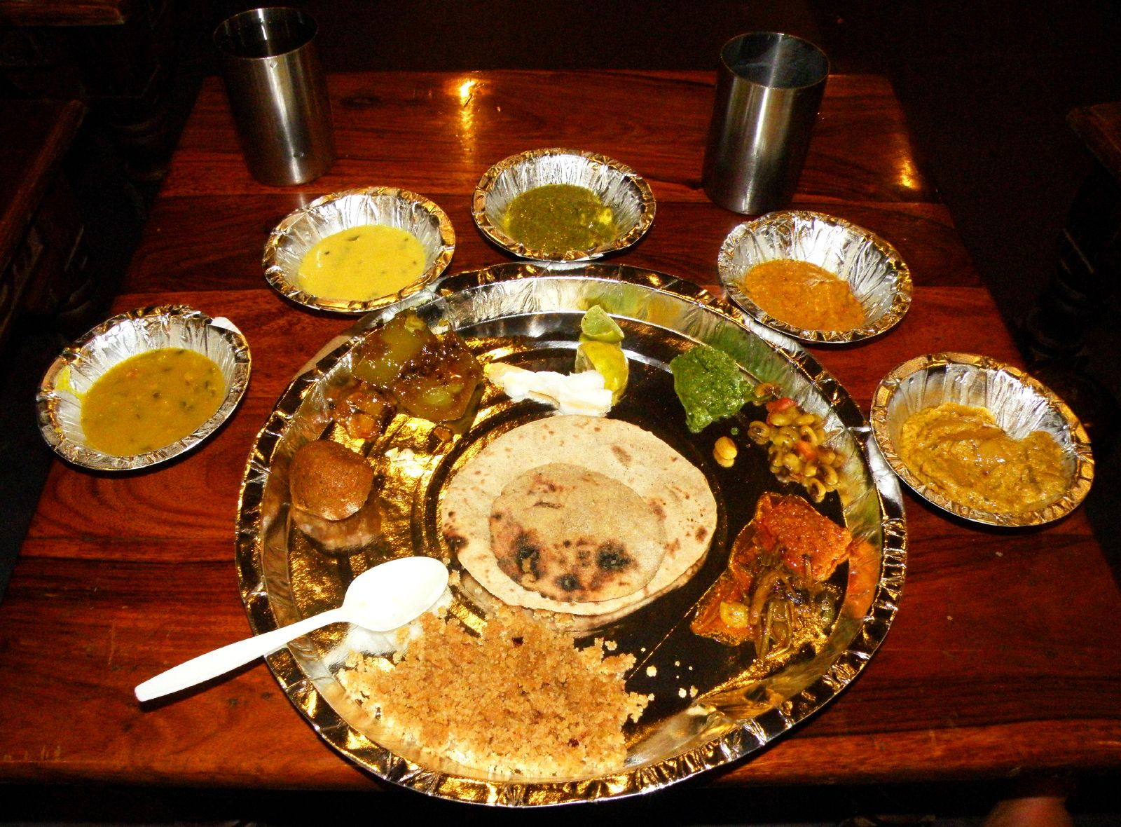 Thali